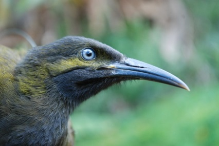 The mao (Gymnomyza samoensis), is endemic to the Samoan Archipelago and is now restricted to the islands of Upolu and Savaii in Samoa.